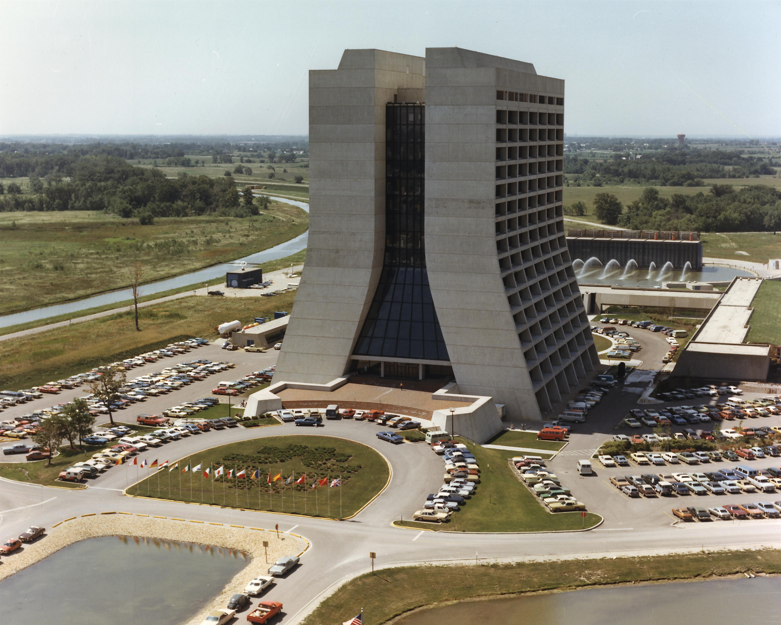 AERIAL VIEW OF THE 16-STORY ADMINISTRATIVE HEADQUARTERS AT THE CENTRAL LABORATORY AREA. FERMI LAB IS LOCATED NEAR BATAVIA, ILLINOIS, SOME 35 MILES WEST OF CHICAGO. THE LABORATORY, ENGAGED PRINCIPALLY IN HIGH ENERGY PHYSICS RESEARCH, IS OPERATED BY THE UNIVERSITIES RESEARCH ASSOCIATES, INC., A CONSORTIUM OF 54 UNIVERSITIES THROUGHOUT THE UNITED STATES AND CANADA. ITS PRINCIPAL INSTRUMENT, ONE OF THE WORLD'S MOST POWERFUL ACCELERATORS, IS CAPABLE OF OPERATING AT 500 BILLION ELECTRON VOLTS. DEVELOPMENT OF THE ENERGY DOUBLER/SAVER NOW UNDER WAY WILL INCREASE THIS ENERGY TO 1,000 BILLION ELECTRON VOLTS WHILE DECREASING POWER CONSUMPTION. CURRENTLY, ACTIVITIES AT THE LABORATORY ARE DIVIDED INTO THREE PARTS: CONDUCTING A PHYSICS RESEARCH PROGRAM, IMPROVING THE OPERATION OF THE PRESENT FACILITIES, AND DEVELOPING MORE POWERFUL FACILITIES FOR FUTURE RESEARCH ACTIVITIES. For more information or additional images, please contact 202-586-5251.